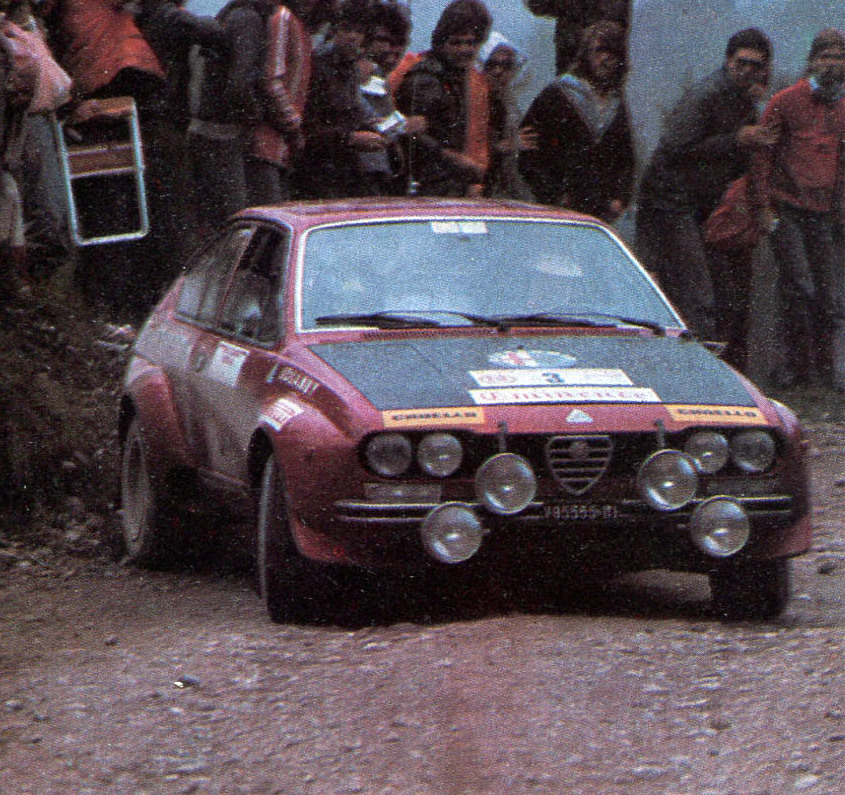 French rally driver Jean-Claude Andruet and his co-driver Yves Jouanny on an Alfa Romeo Alfetta GT (Group 2) at the 1975 Rallye San Martino di Castrozza (Trento, Italy).